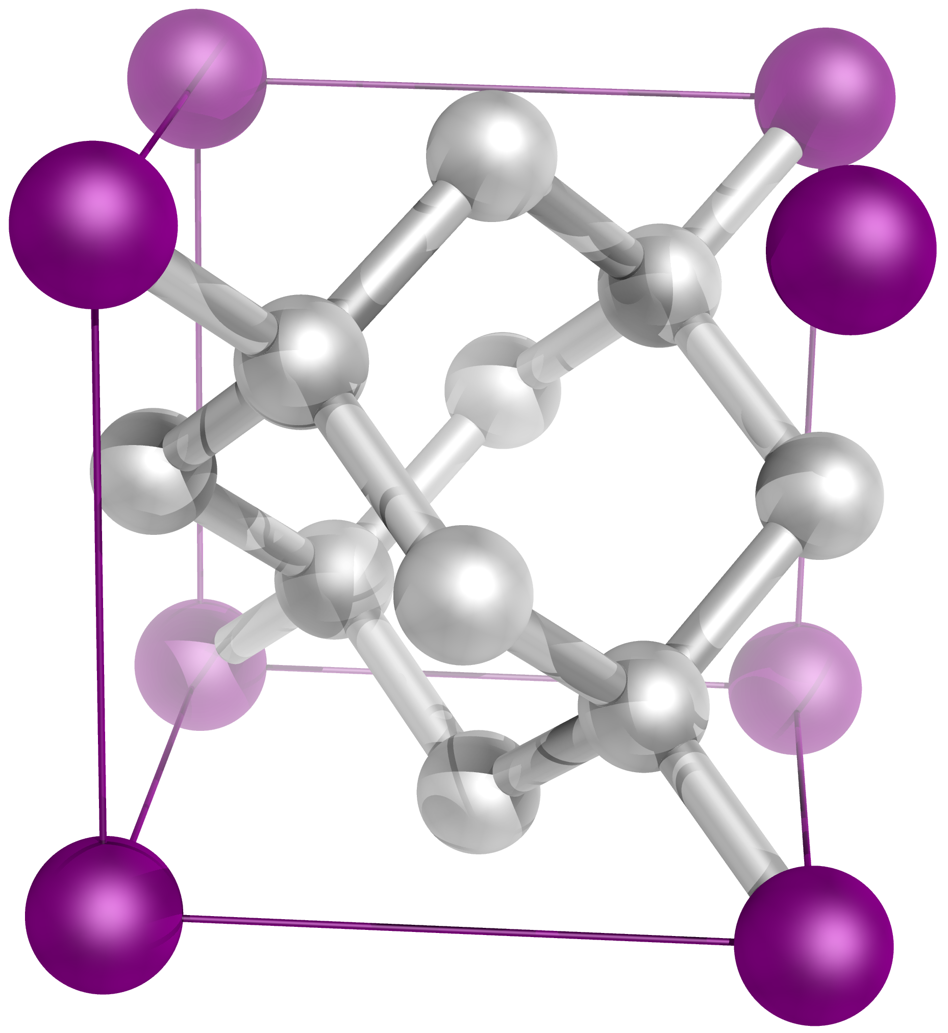 Diamond crystal structure consists of a face centered cubic lattice, each edge measures 3.6 Å.